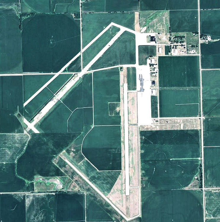 USGS digital orthophoto of Fairmont State Airfield in Nebraska